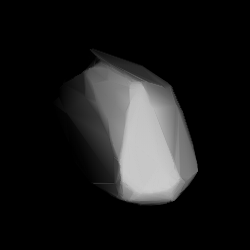 3D convex shape model of 1449 Virtanen, computed using light curve inversion techniques. J. Hanuš, J. Ďurech, M. Brož, B. D. Warner (June 2011). "A study of asteroid pole-latitude distribution based on an extended set of shape models derived by the lightcurve inversion method". Astronomy and Astrophysics 530: A134. ISSN 0004-6361. arXiv